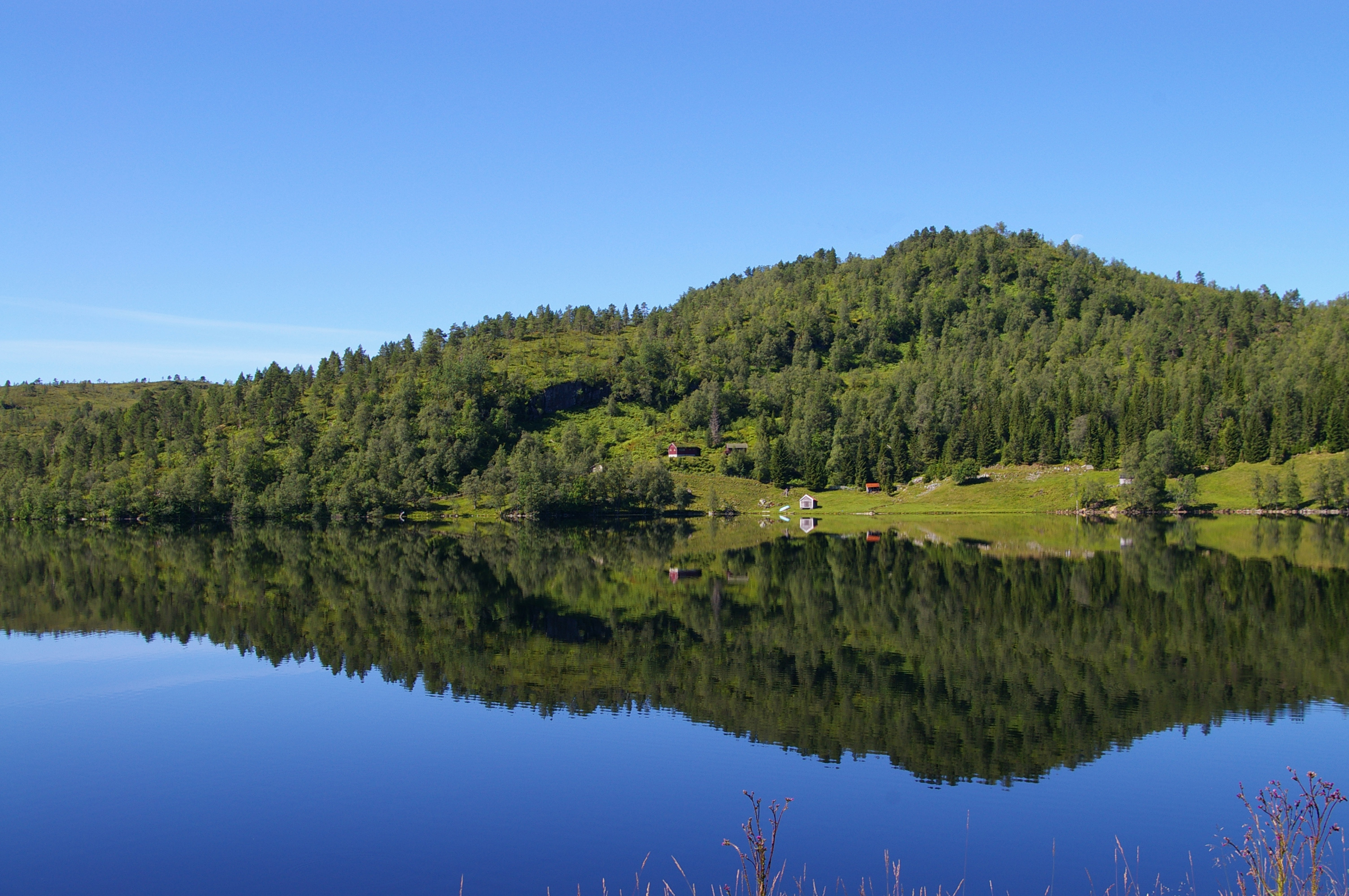 Lake Langeland in Førde, Sogn og Fjordane, Norway